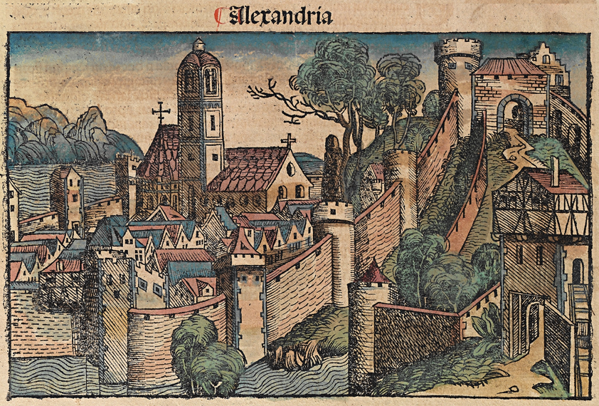 This is a part of a scan of an historical document: Title: Schedelsche Weltchronik or Nuremberg Chronicle